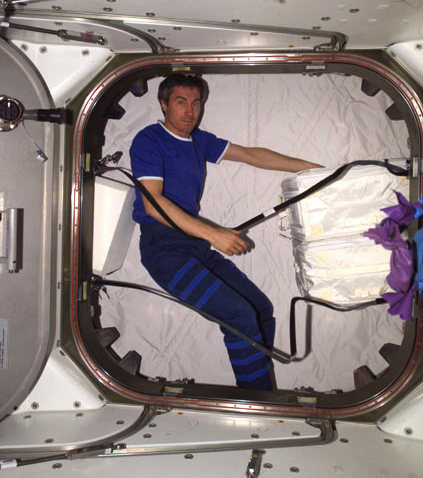 International Space Station Status Briefing, June 13, 2005 Commander Sergei K. Krikalev inside the Z1 truss dome